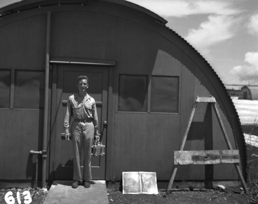 Lawrence Johnston with Fat man core on Tinian